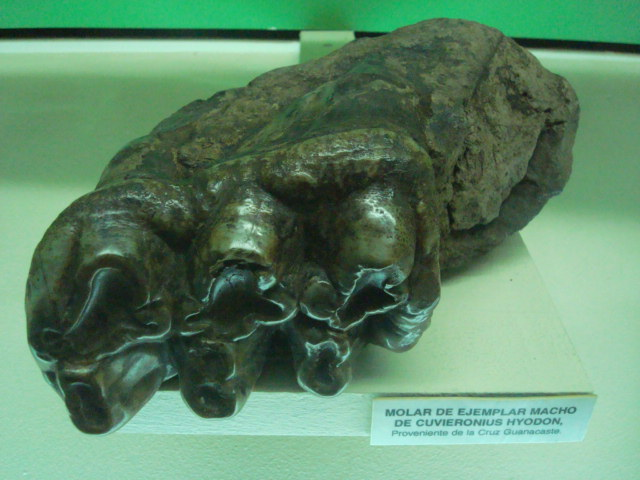 Cuvieronius hyodon tooth, found in La Cruz, Guanacaste. Museo Nacional de Costa Rica.